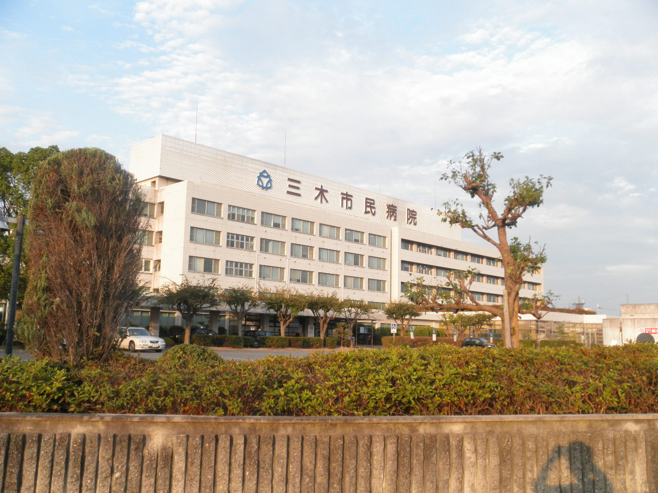 Mikicity Hospital